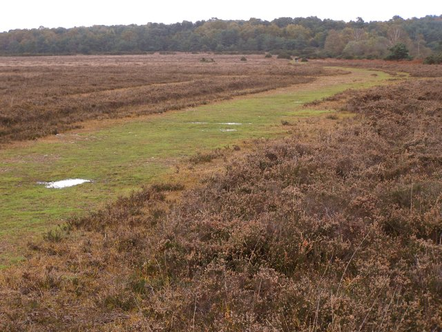 Track on Hale Purlieu, New Forest The gravel plateau of Hale Purlieu is a flat and featureless place. It is managed as a heathery heath, and contains a number of grassy tracks such as this.